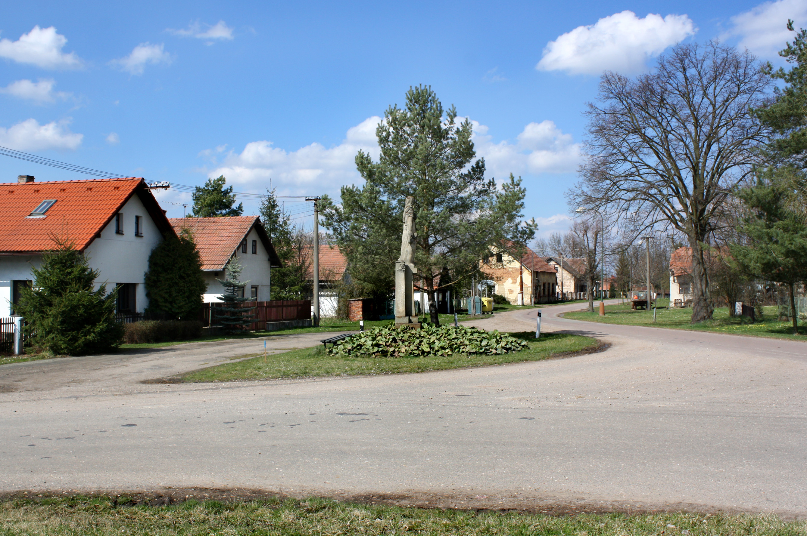 Common in Dvořiště, part of Chroustov village, Czech Republic